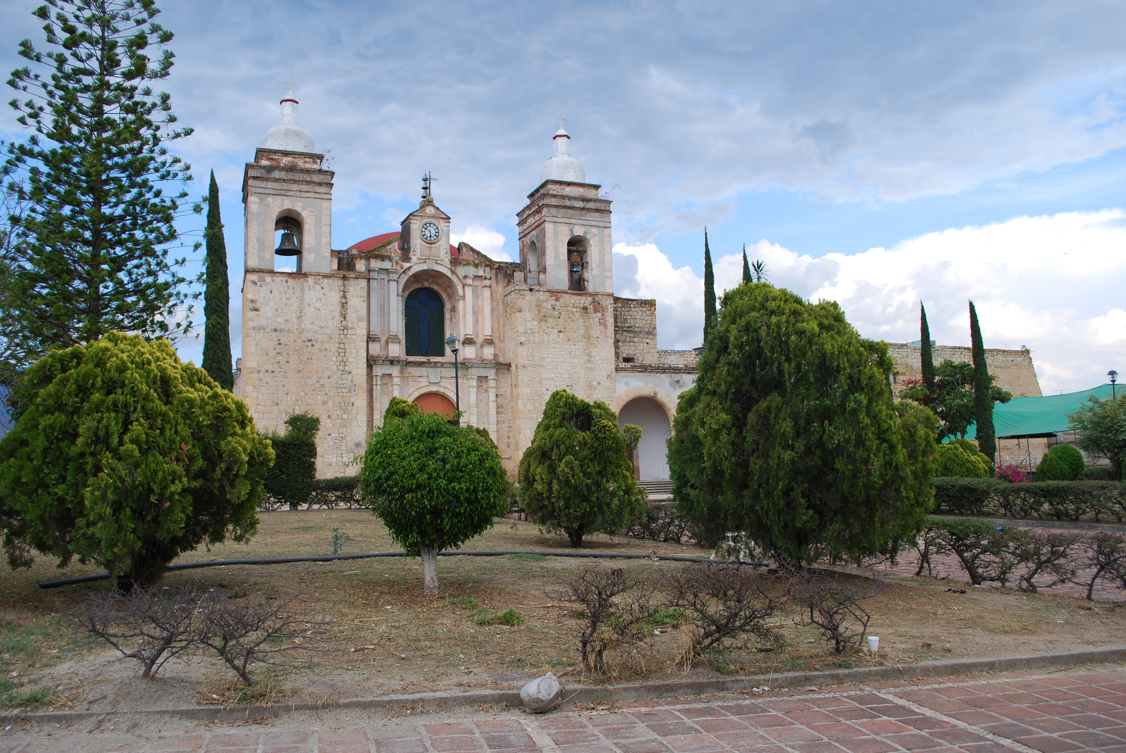 Atrium and church in Villa de Etla, Oaxaca, Mexico